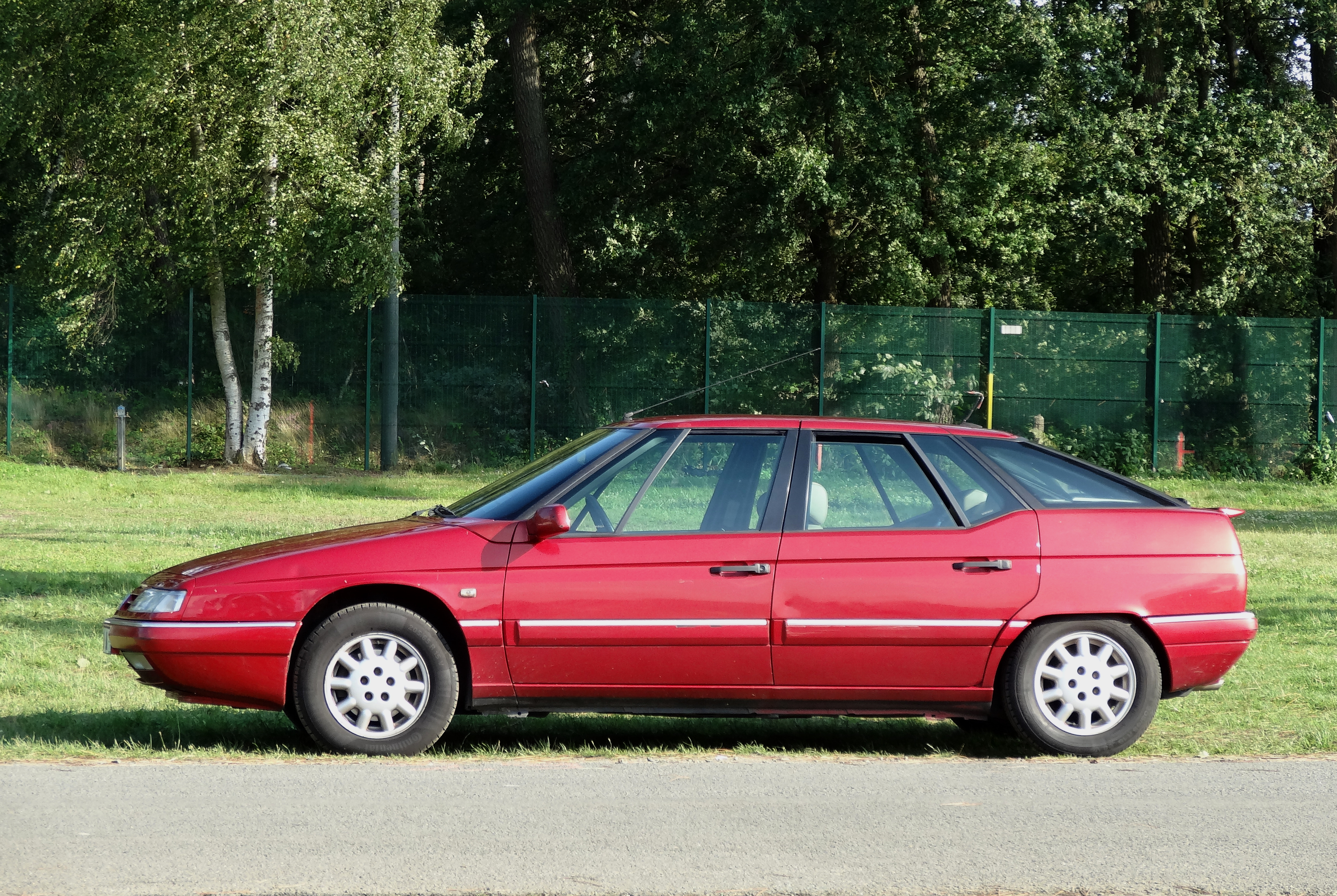 EuroCitro 2014 Le Mans 3303 Citroen XM